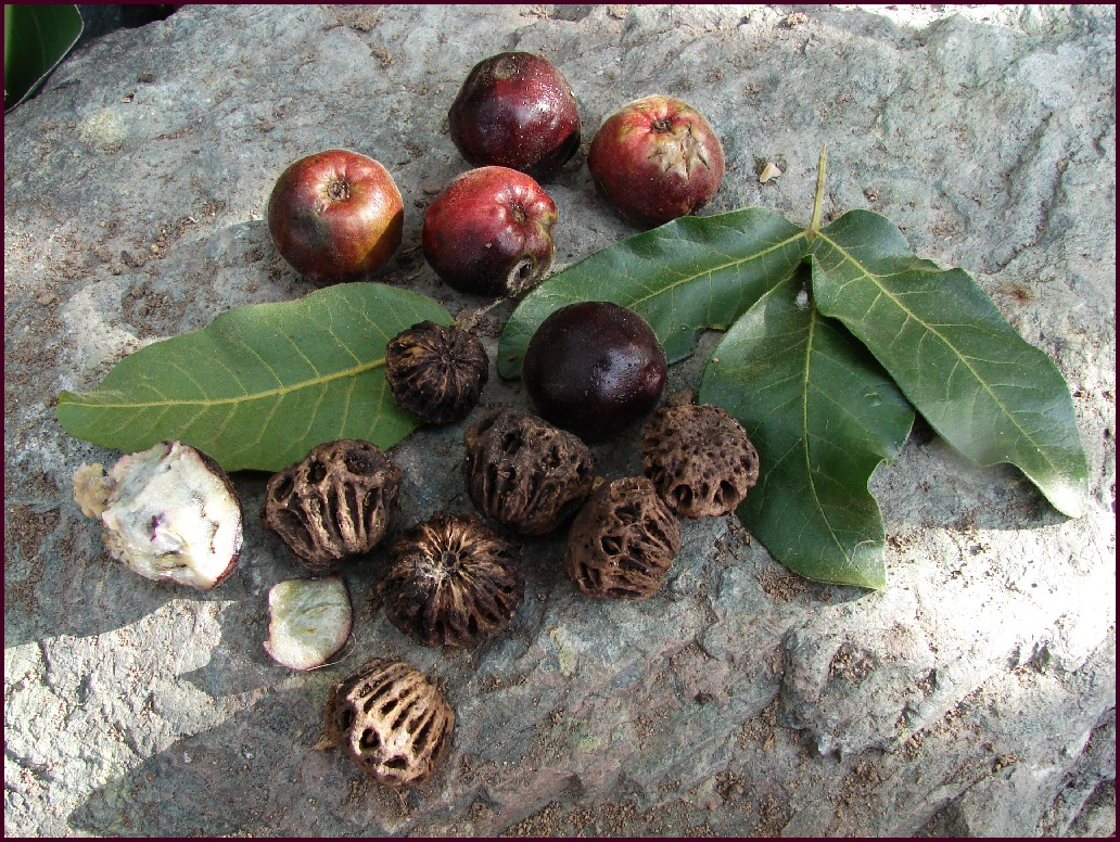 Burdekin plum tree Pleiogynium timorense. Australian native tree from North Queensland. Before I've found ID for this tree, I called it "Muffin-nut tree", because of the funny shape of these seeds (endocarp). So, look for old seeds underneath the tree - there could be plenty of fruit remains - the hard endocarp, that surrounds the seeds. Someone say, the endocarps look like little UFOs with portholes in the side! I reckon they are muffin shaped. The ripe fruit are dark purple, edible and were popular with Aborigines, explorers and settlers. But I would agree with Joseph Banks who collected samples in 1770, complained that the fruits of Burdekin plum were "so full of a large stone that eating them was but an unprofitable business". Burdekin Plum is in the family Anacardiaceae, along with Mangoes and Cashew Nuts. .au/p-tim.html